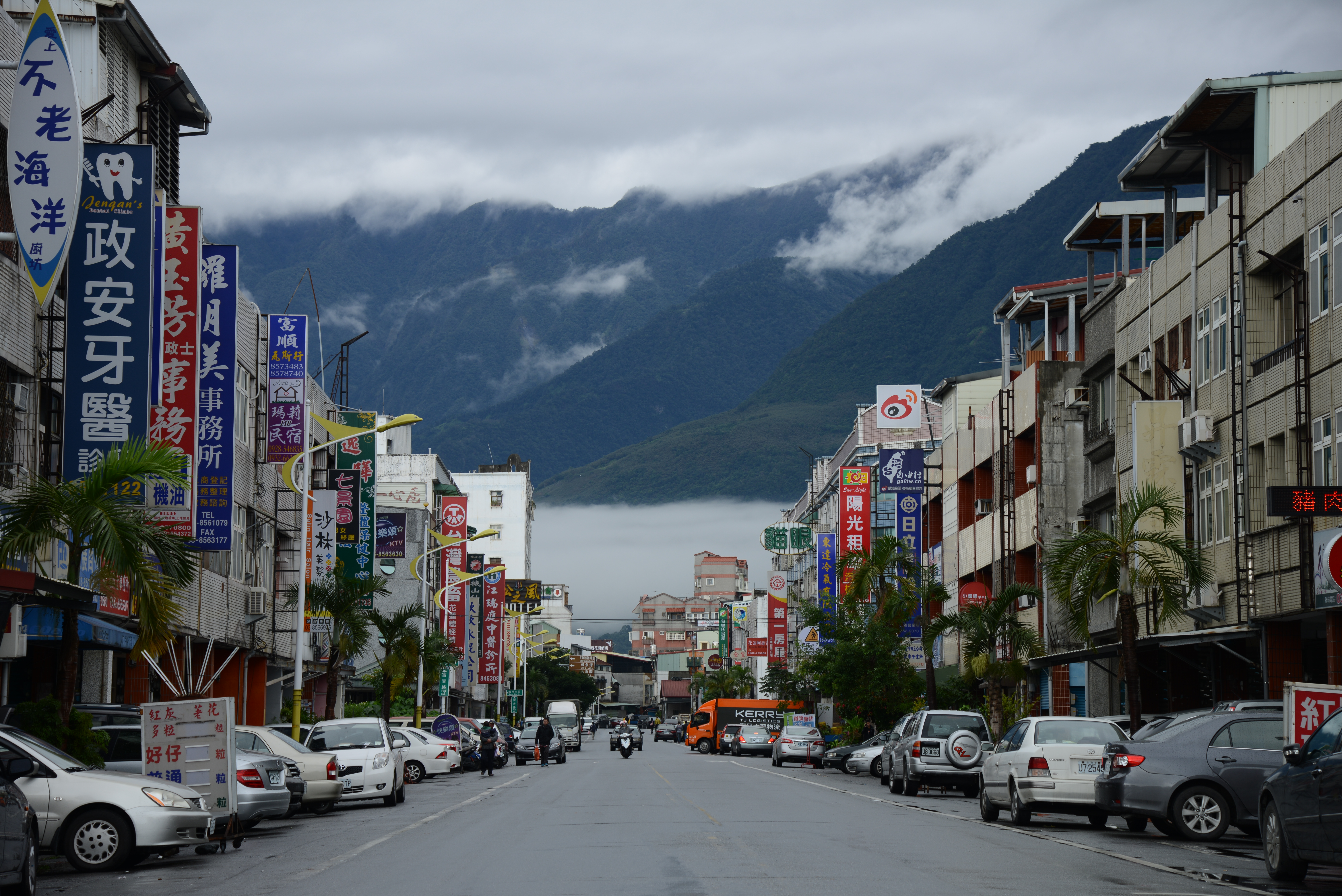 View of cloud-covered mountains from the road in Hualien City